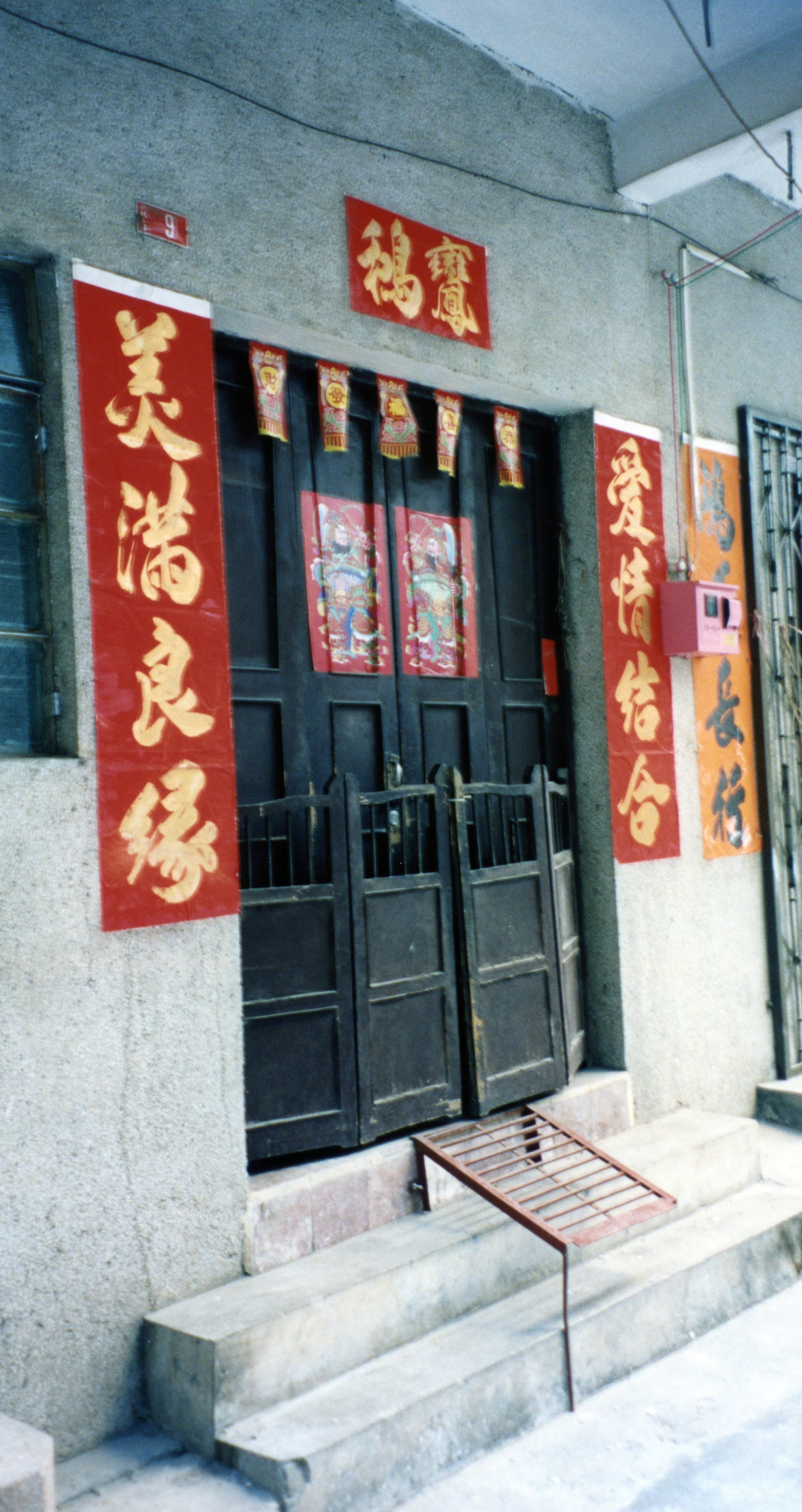 A Chinese home decorated for Chinese New Year.